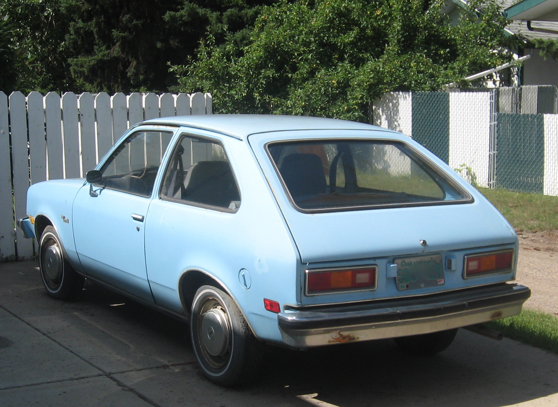 '76 Chevette, shot in Saskatoon, SK, Summer 2008